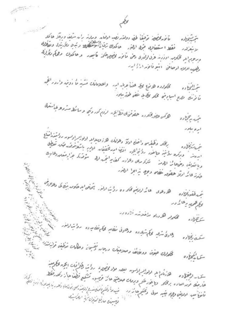 Extract from a draft of the Ottoman Constitution of 1876 with edits by Namık Kemal. Articles 75 to 83 can be seen in the section " Mehâkim ".